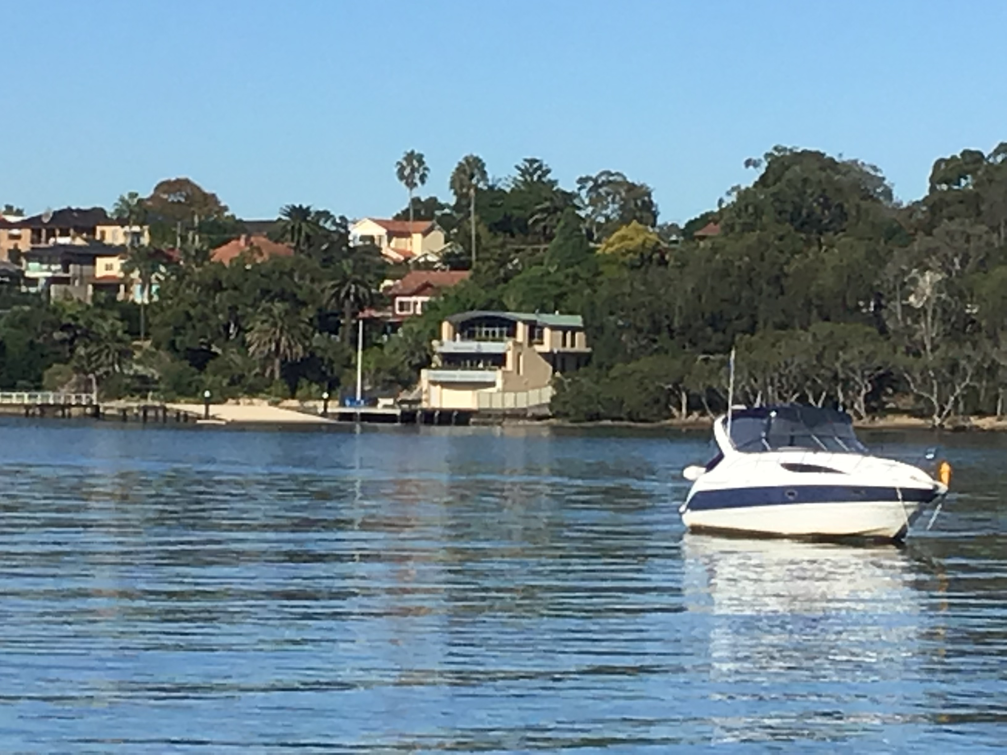 Woolley House